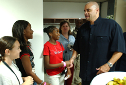 Actor and Comedian Sinbad speaks with Zama American High School students Tuesday before he began his show at Atsugi Naval Air Facility’s Club Trilogy.